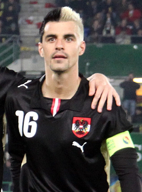 Austria national football team against Spain